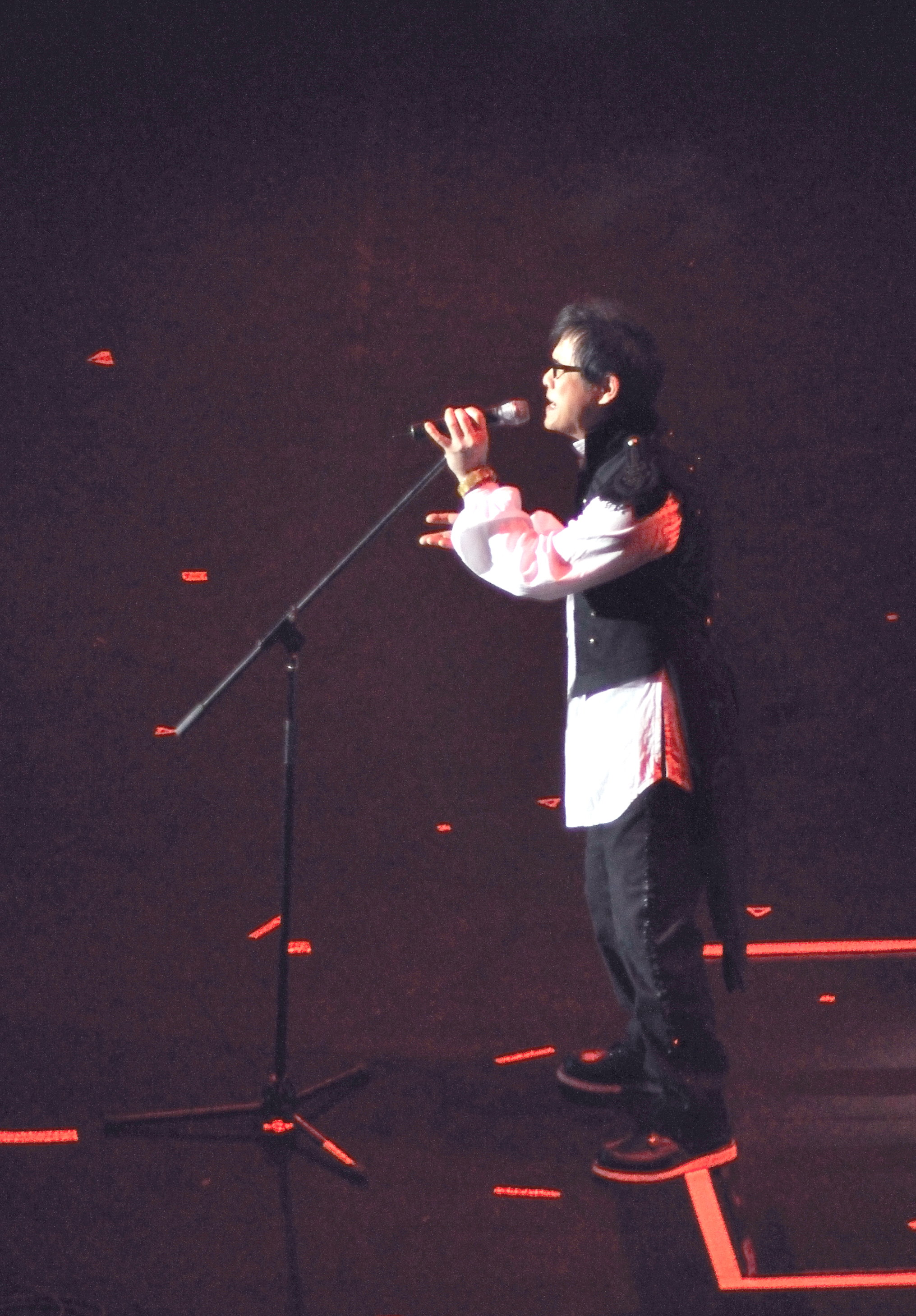 Lo Ta-yu (羅大佑)Bân-lâm-gú: Lô Tāi-iū. 羅大佑